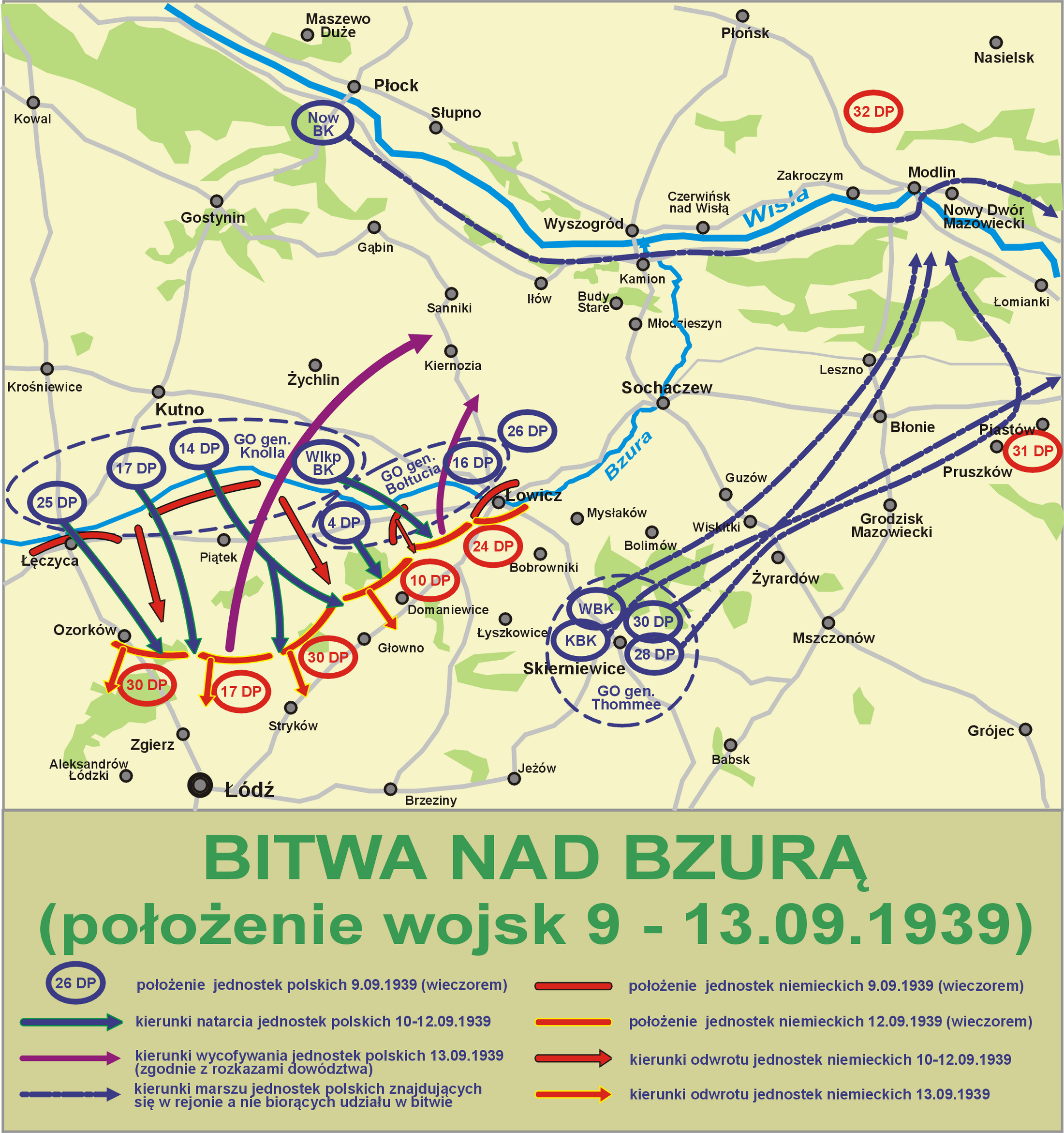 Battle of the Bzura (1939-07-9-13)